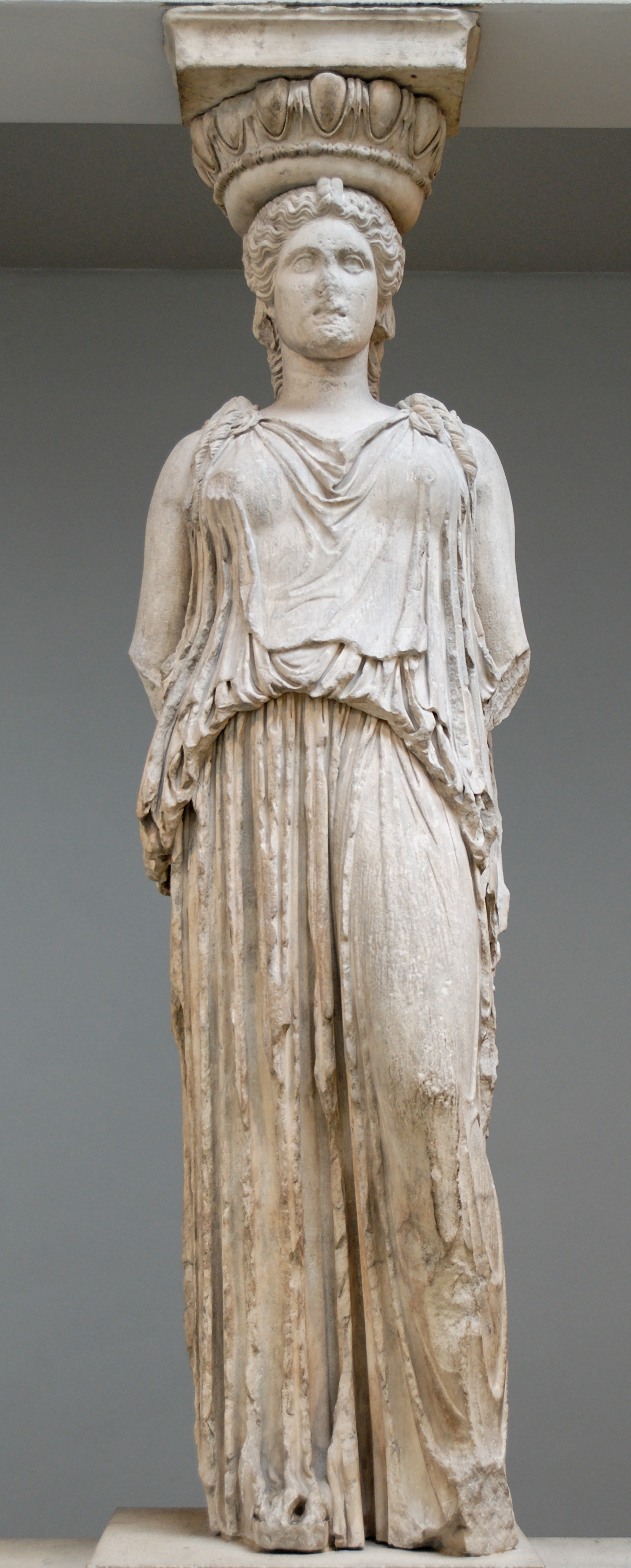 Caryatid from the Erechtheion in Athens.